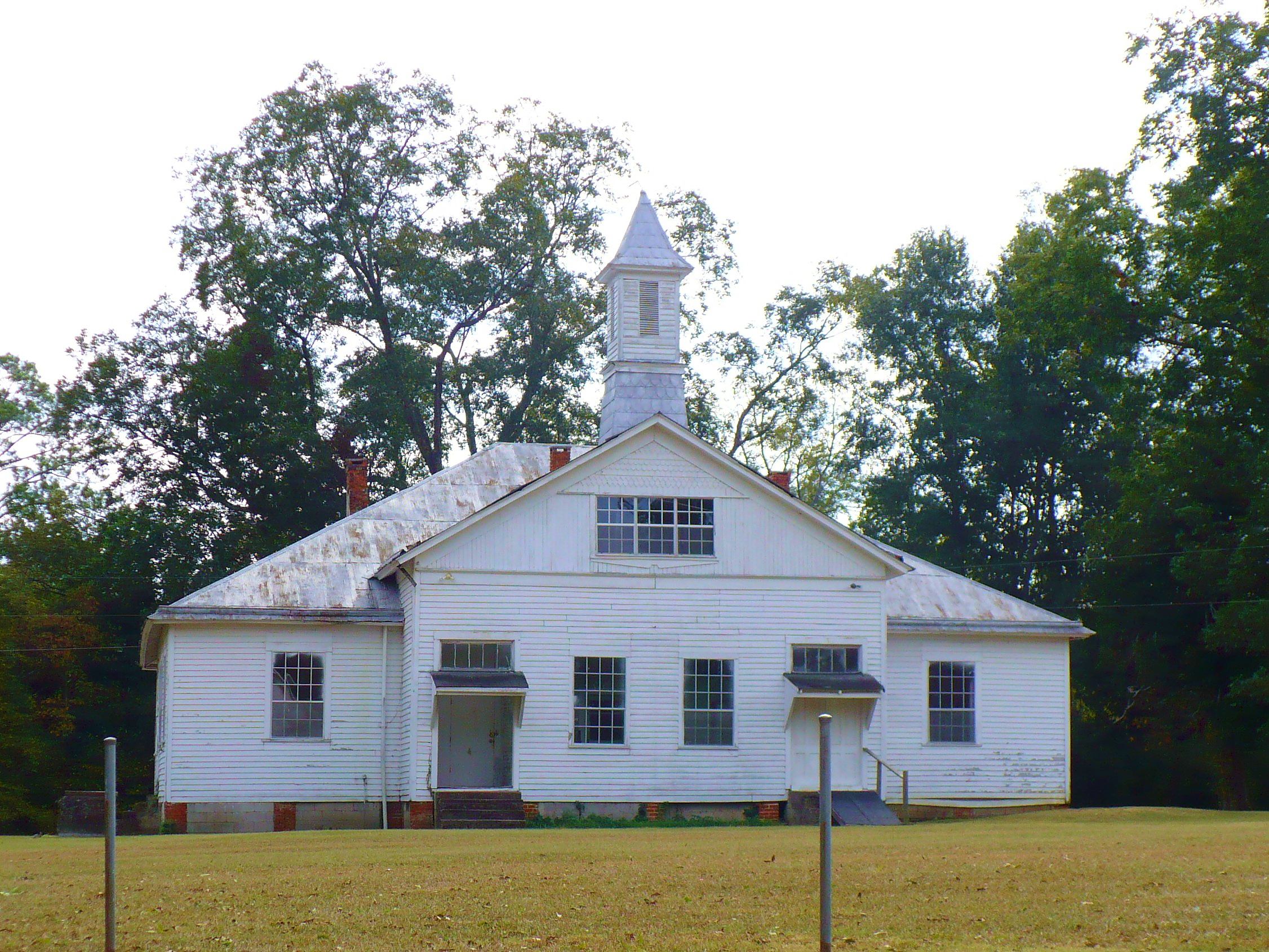 The Prairie Mission school building in Wilcox County, Alabama. Built in 1895.